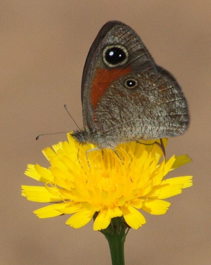 Taken at Obonjaneni, KwaZulu-Natal, South Africa